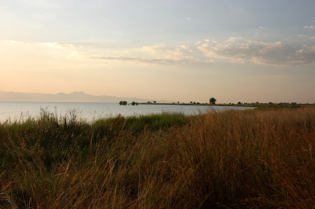 Lake Malombe